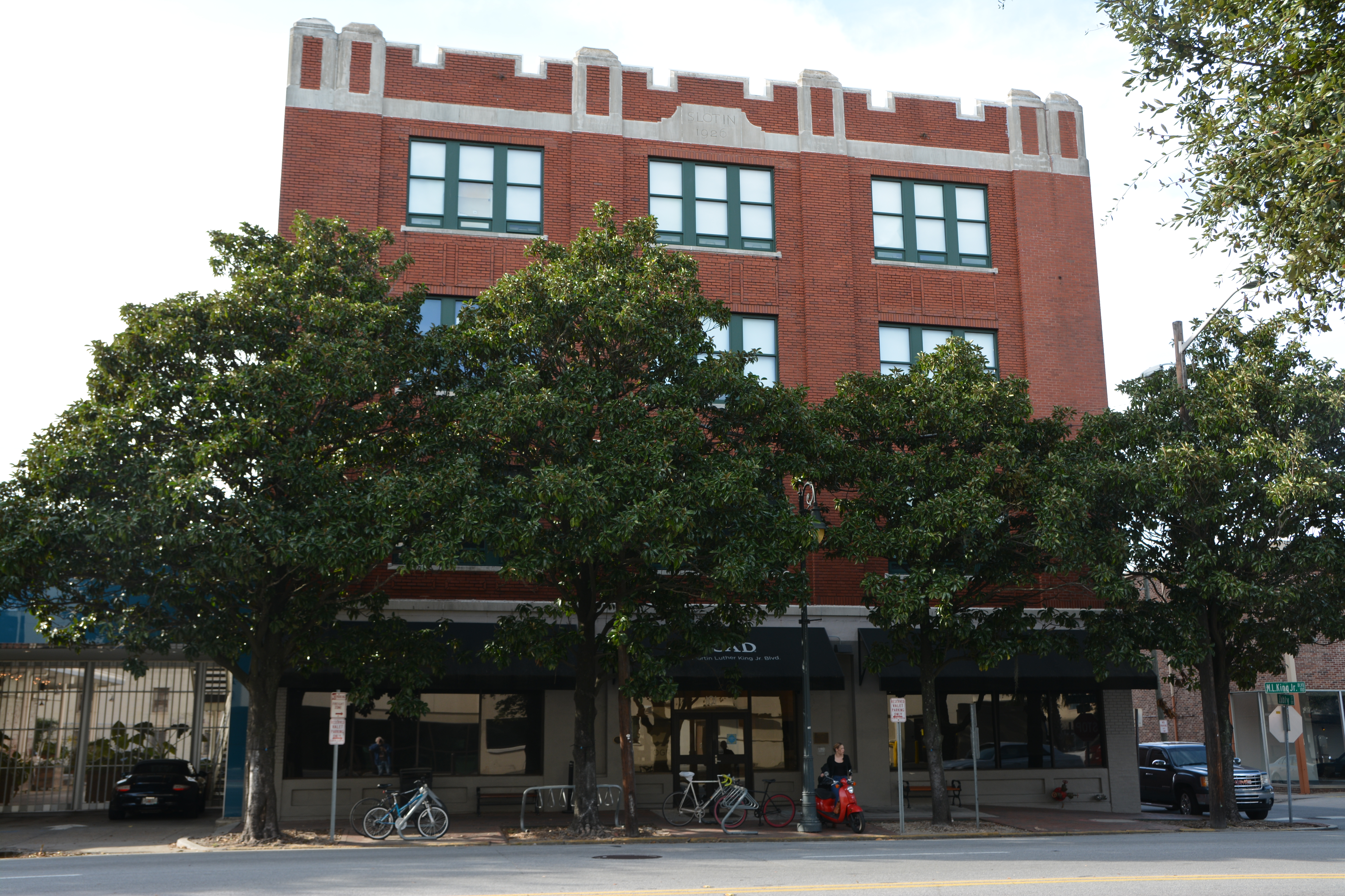 The Slotin Building, Savannah, Georgia, U.S. On Martin Luther King Jr Blvd. Now one of the buildings of the Savannah College of Art and Design.